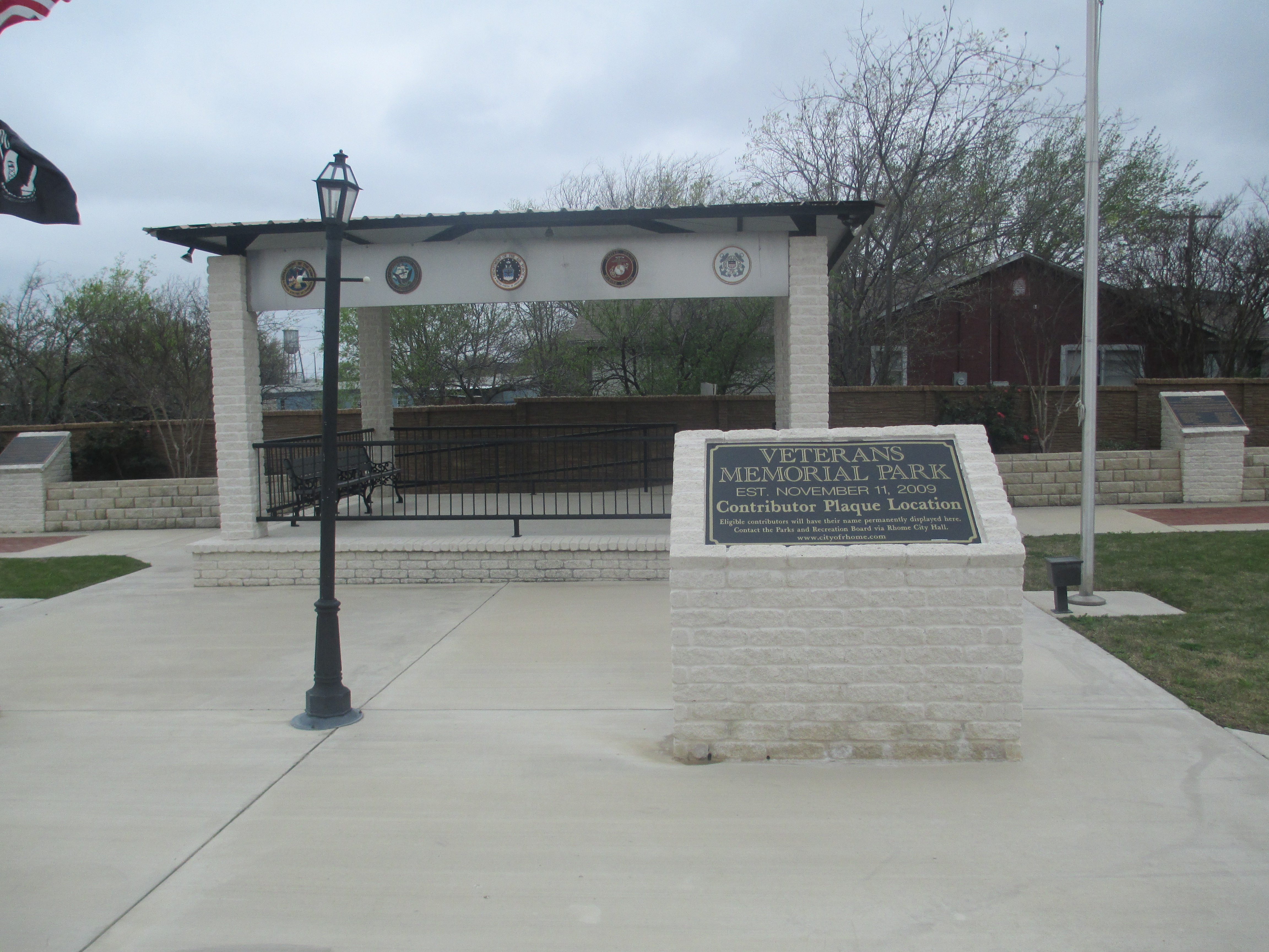 I took photo at Veterans Memorial Park in Rhome, TX, with Canon camera, April 7, 2013. Billy Hathorn (talk) 19:00, 9 April 2013 (UTC)